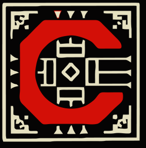 Carlisle Indian School Logo used on school publications in early 20th century